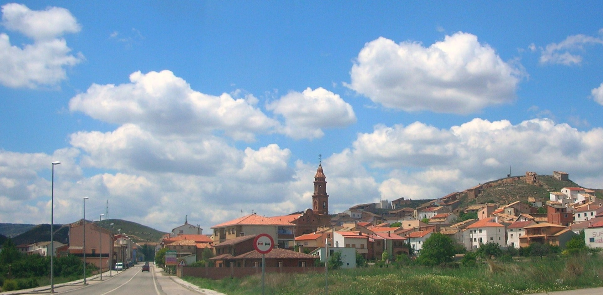 View of Martín del Río